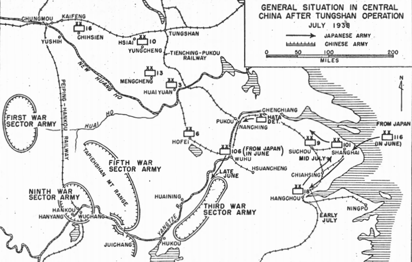 Map of Japanese and Chinese dispositions after the Battle of Xuzhou, 1938